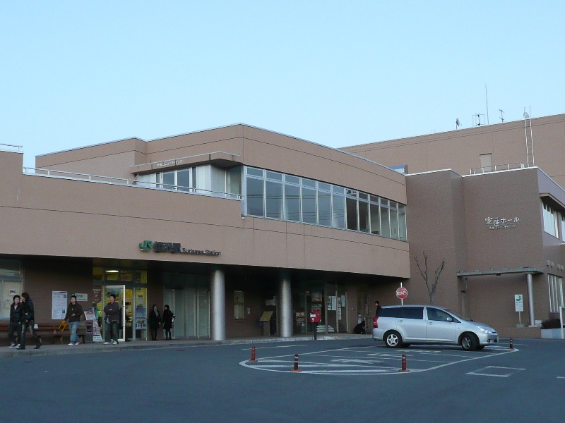 Surisawa Station